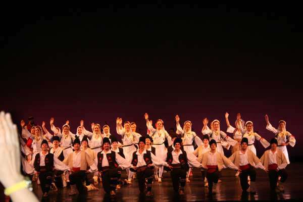 SCA Opleanc concert at Joan Kroc Theater, San Diego CA, May 19 2012